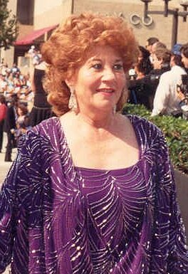 Charlotte Rae on the red carpet at the 40th Annual Primetime Emmy Awards, 8/28/88 - Permission granted to copy, publish, broadcast or post but please credit "photo by Alan Light" if you can